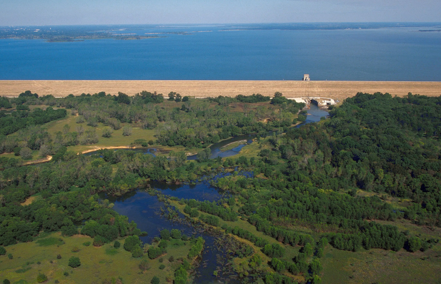 Aerial view of Lewisville Lake and Dam on the Elm Fork of the Trinity River in Denton County, Texas, USA. The lake is located near the town of Lewisville about 20 miles (32 km) north of Dallas. The dam was constructed in 1954 by the U.S. Army Corps of Engineers for flood control and water supply. View is to the north. Original image rotated and cropped by contributor. Coordinates: 33°6′2.68″N 96°57′50.25″W / 33.1007444°N 96.9639583°W